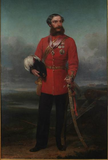 John Inglis By William Gush NS Province House (c.1880)